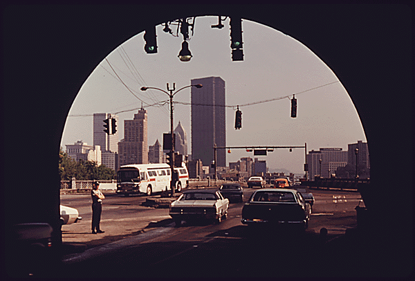 The city of Pittsburgh, as seen through the northern end of the Liberty Tunnels. Gov't description: LIBERTY TUNNEL FRAMES THE CITY AS MOTORISTS APPROACH FROM THE SOUTH ABOUT 10 A.M. ON AUGUST 1, 1974. THIS PHOTO CONTRASTS WITH ONE TAKEN AT THE SAME LOCATION IN 1947 AT APPROXIMATELY THE SAME TIME OF DAY DURING A PERIOD OF SMOG. (SEE PIX #14825 FOR COMPARISON.), 08/1974